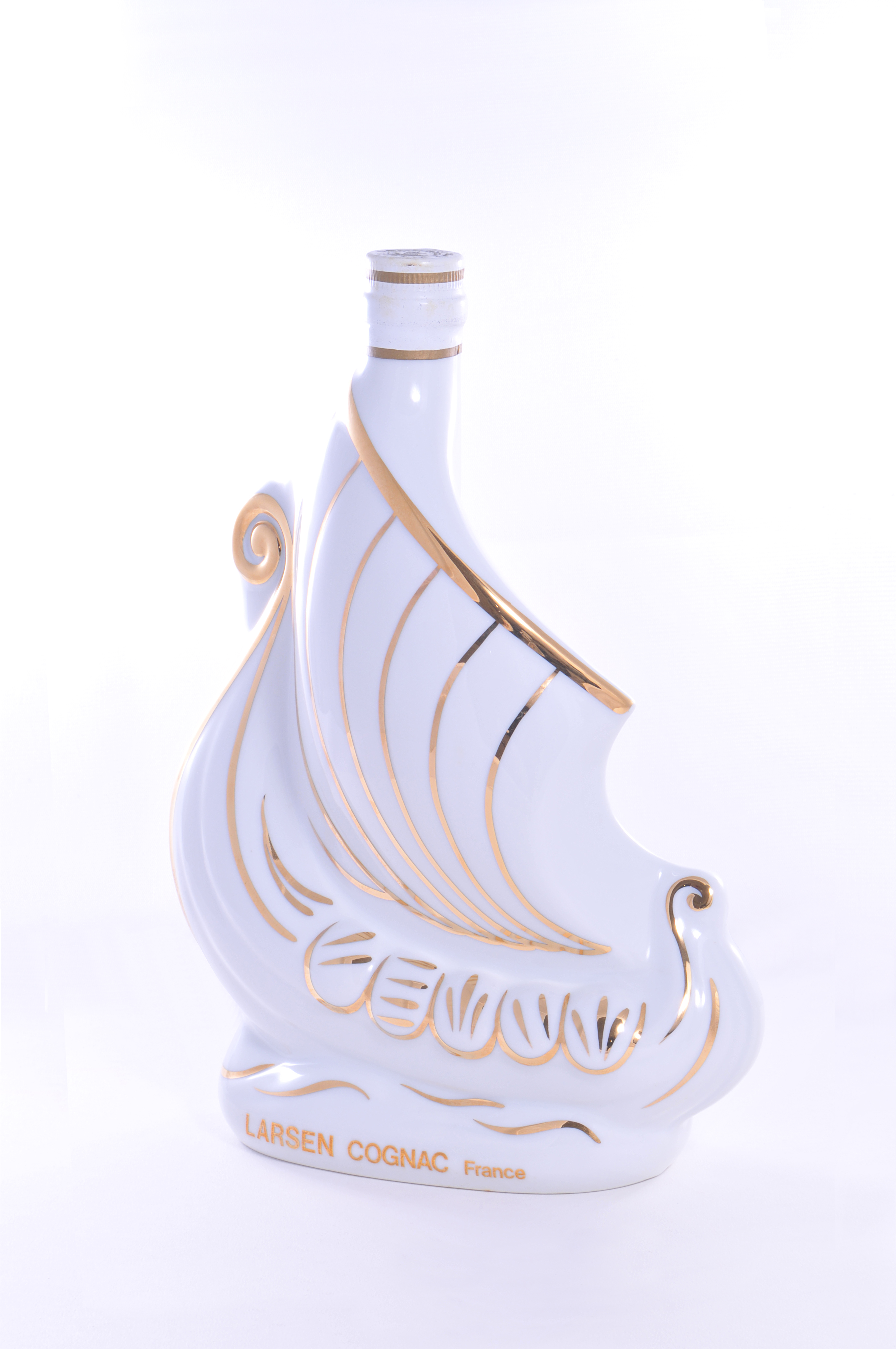 Larsen Cognac Viking Ship 70cl 1985